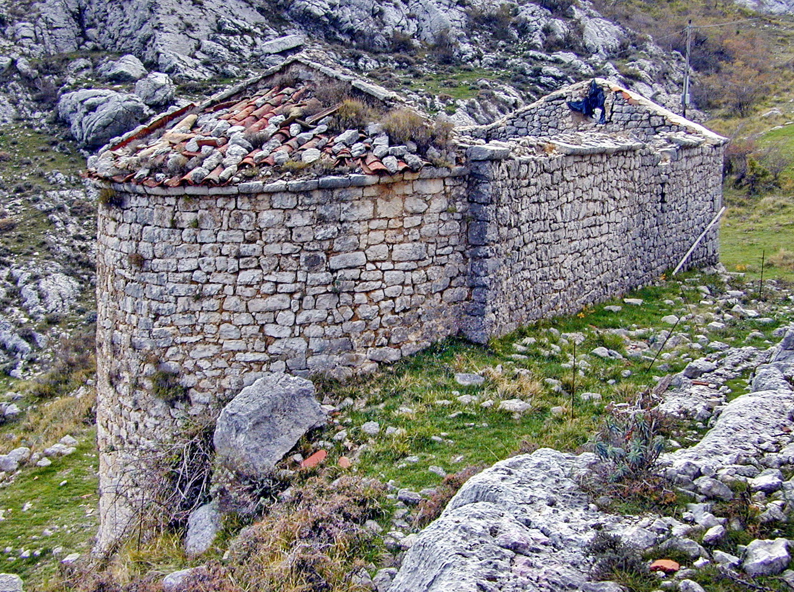 Saint-Martin Chapel in Escragolles (06) on the real Napoleon's way